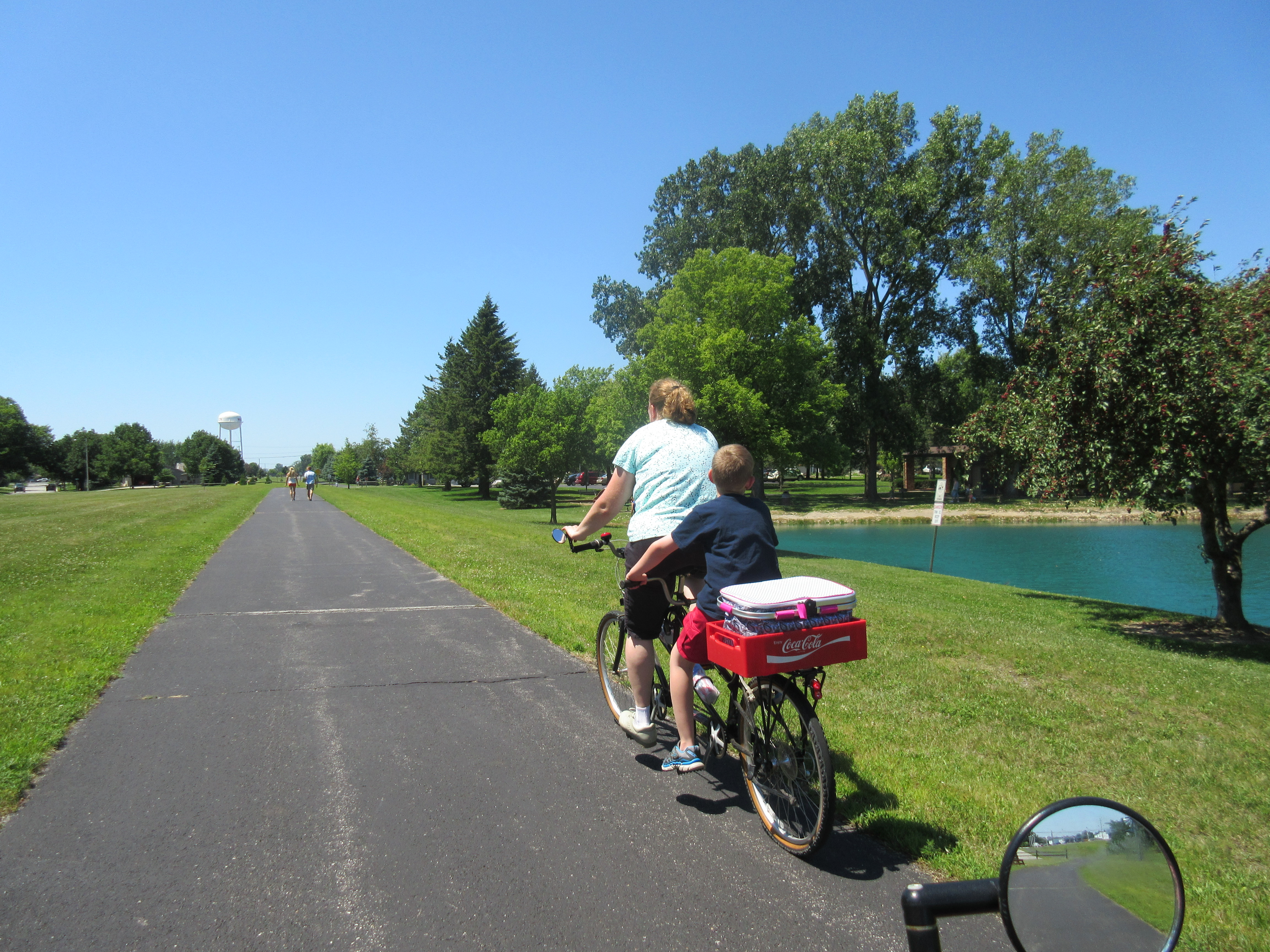 Westbound Wabash Cannonball Trail, Rotary Park, Wauseon, Ohio